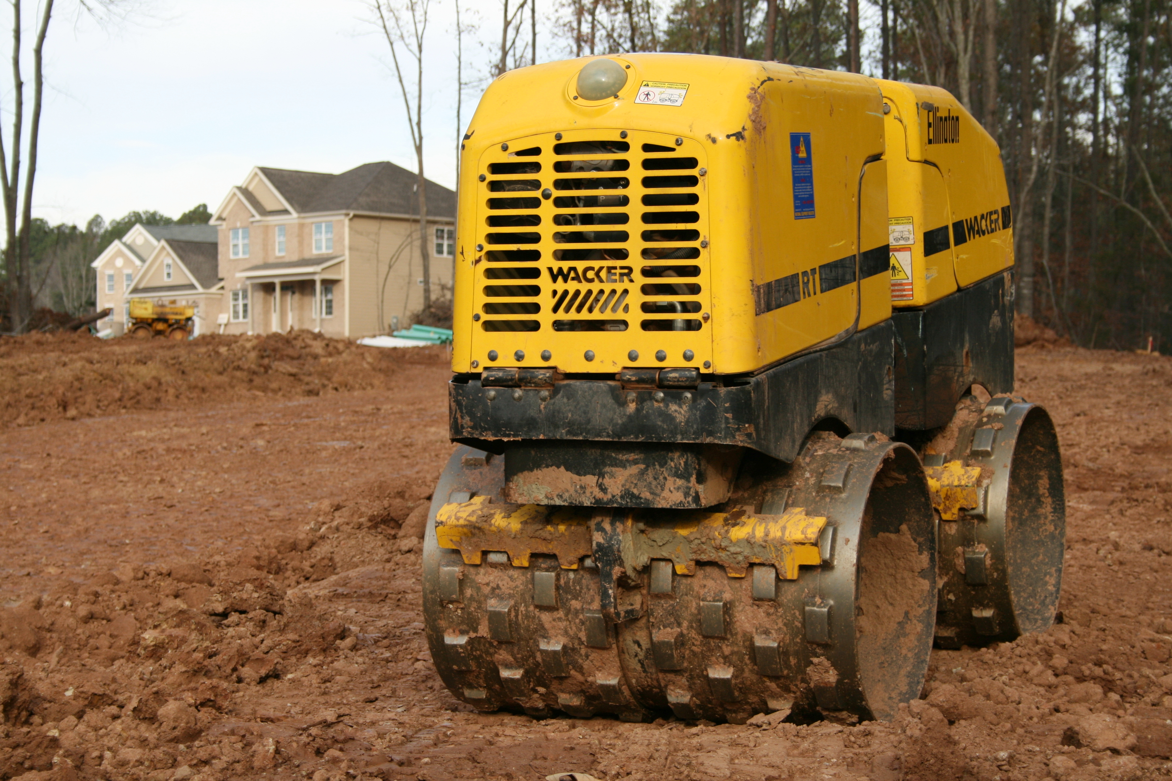 A Wacker RT-series vibratory trench roller at a construction site in Durham, North Carolina.